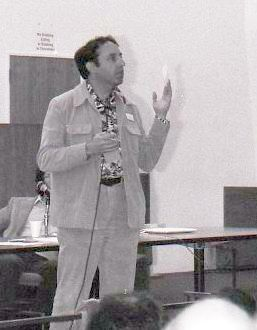 Daryl Bem at the 1983 CSICOP Conference in Buffalo, NY